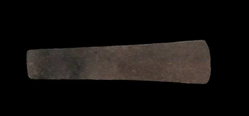 Axe or celt. Chalcolithic of the Yamuna-Ganga Plane. 2800 - 1500 B.C. Collected in Bisauli, district of Badaun, Uttar Pradesh. Bharat Kala Bhavan, Varanasi.